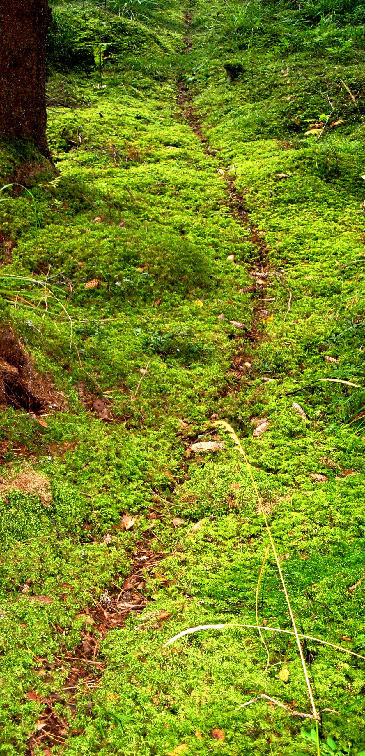 Wood ants (Formica aquilonia) ants create paths through heavy moss in order to move more easily. Near Heby, Sweden